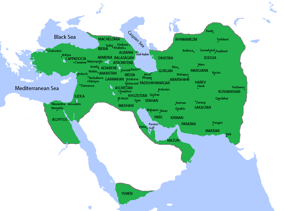 This is a map of the Sassanid Empire.